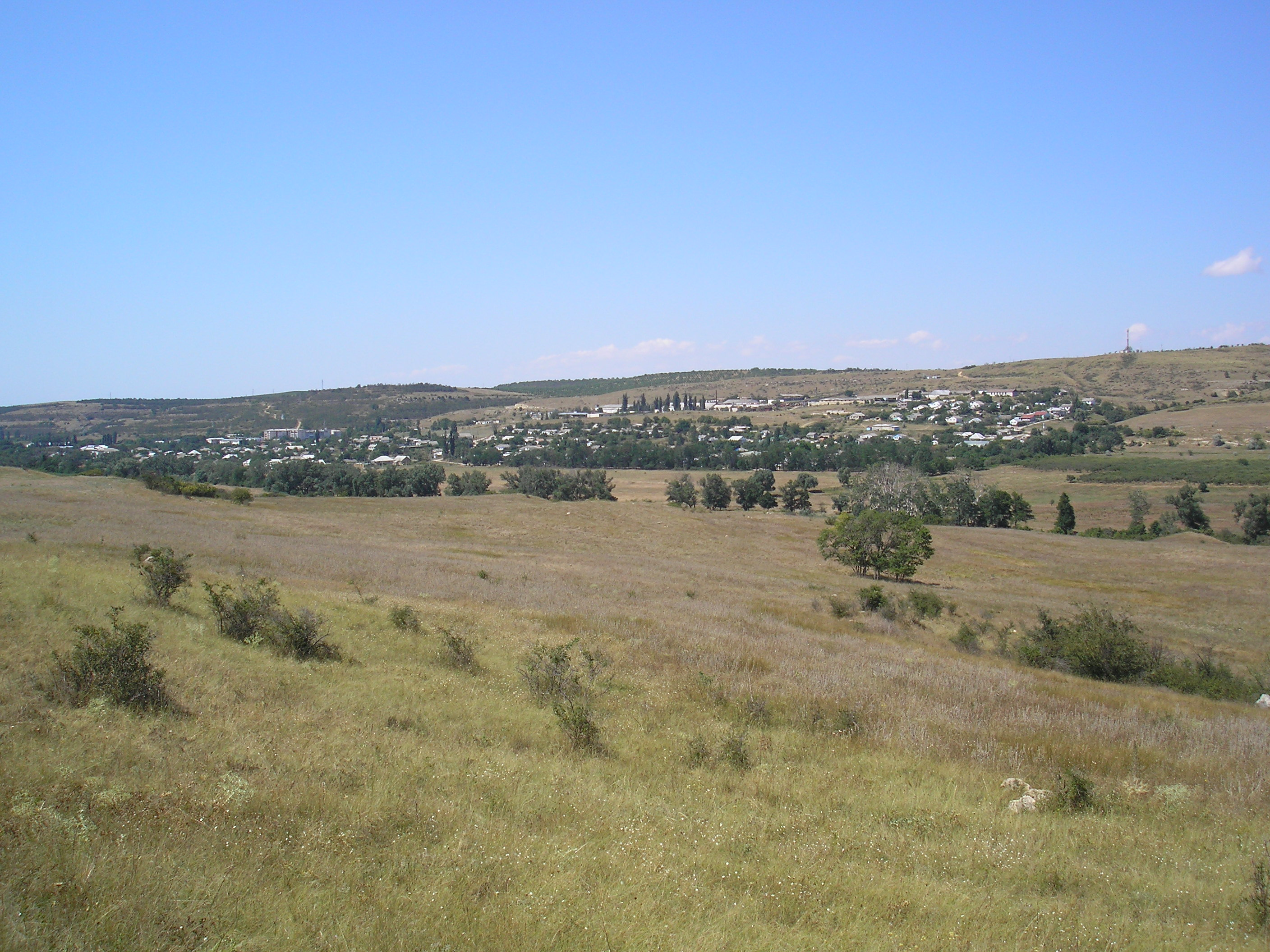 Village Plodovoe, Bakhchisaray district, Crimea